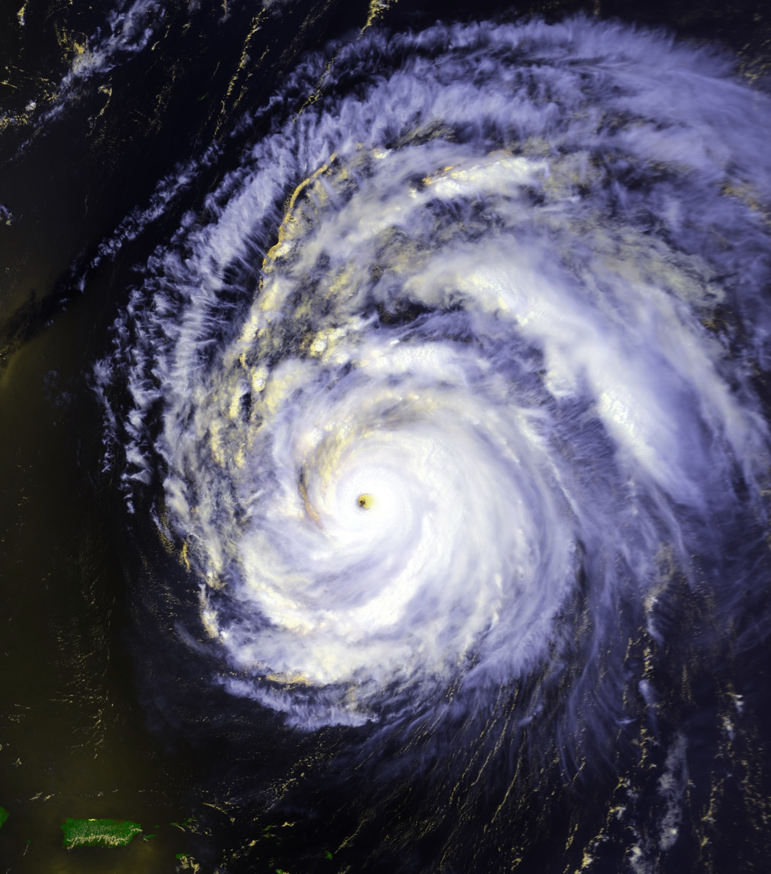 Hurricane Felix near peak intensity on August 12 at 1747 UTC. This image was produced from data from NOAA-14, provided by NOAA. Maximum sustained winds were about 140 mph at this time.